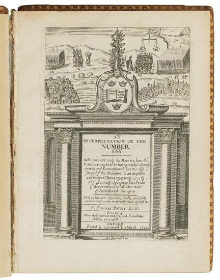 Title page of An Interpretation of the Number 666 (1642) by Francis Potter.